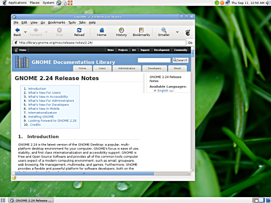 GNOME 2.24 Desktop Screenshot